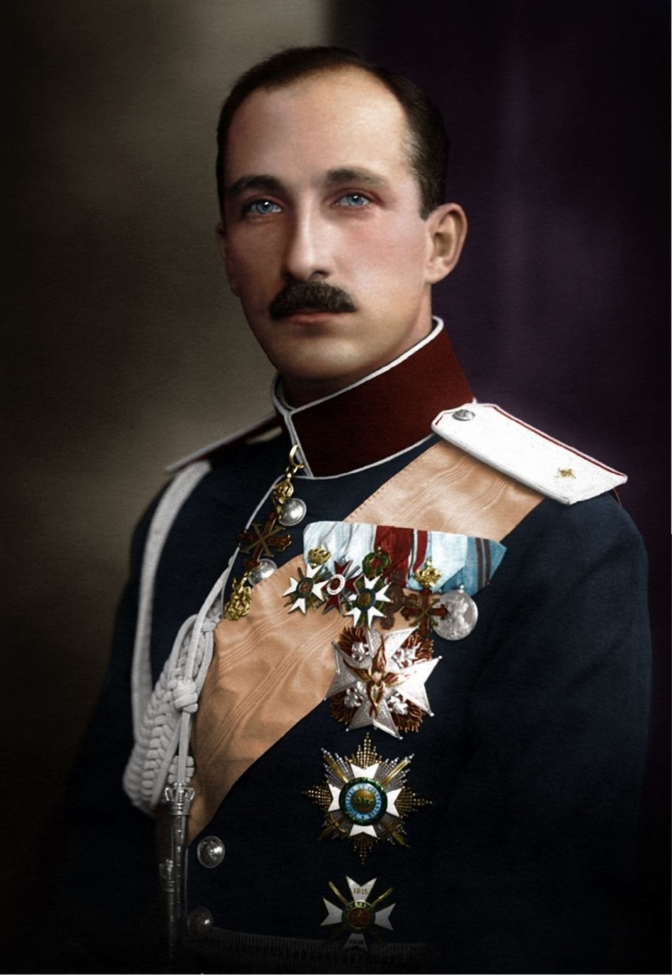 Boris III of Bulgaria, a coloured photograph taken in Sofia in 1920's